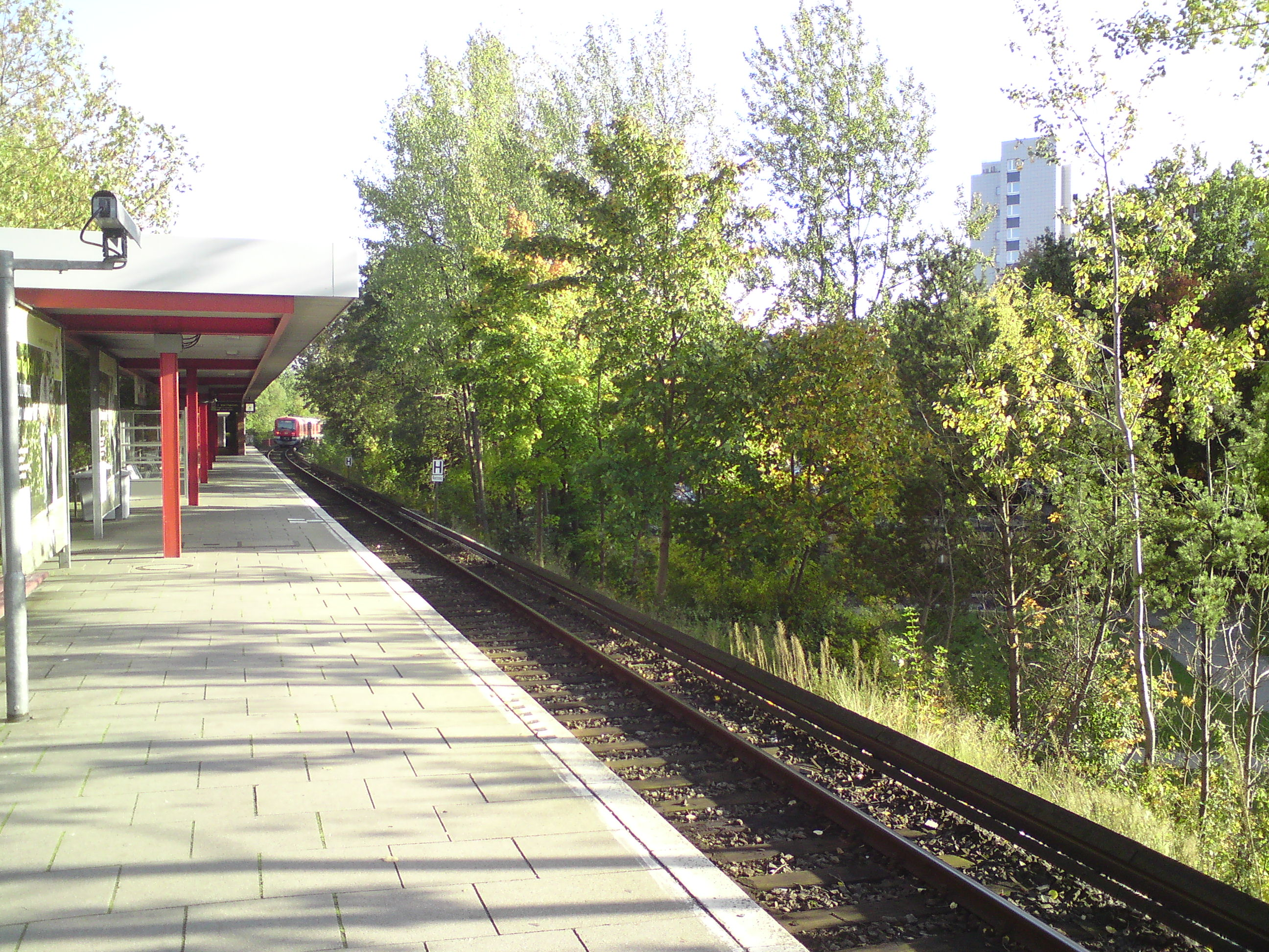 Iserbrook Railway Station in Hamburg